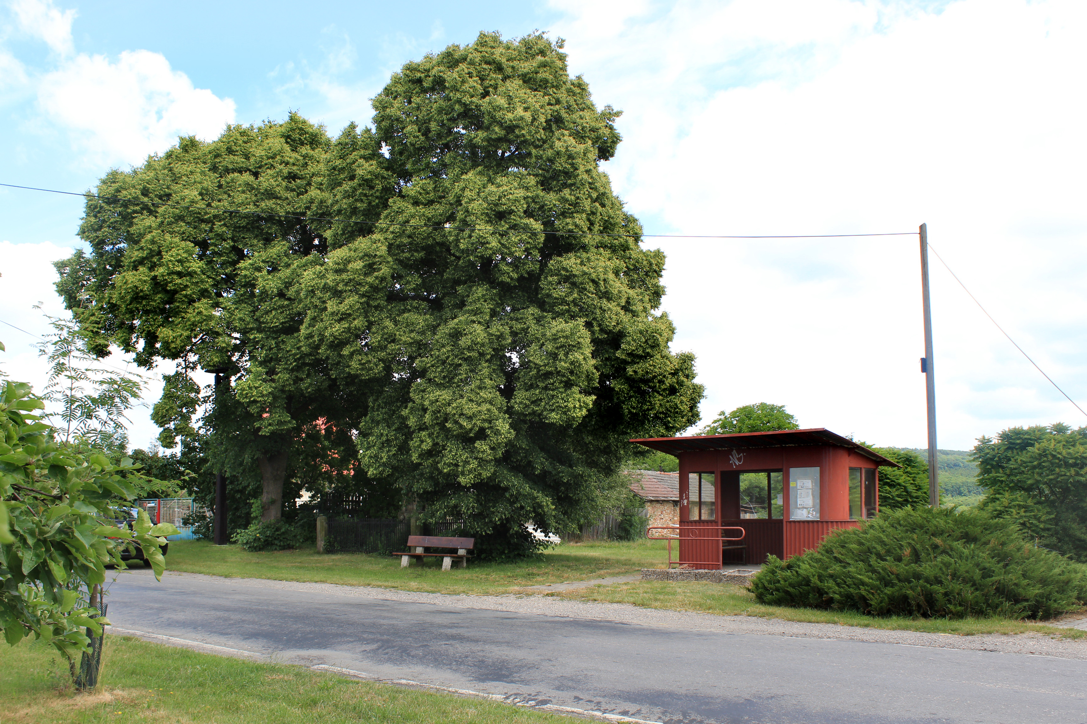 Bus stop in Rabakov, Czech Republic.